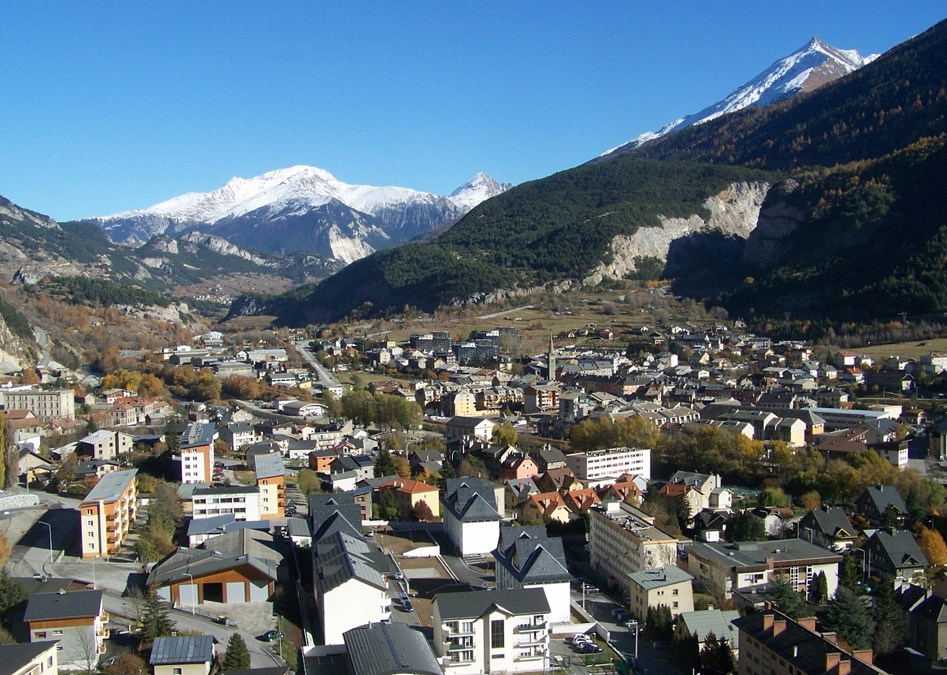 Sight on city of Modane in Savoie, France.